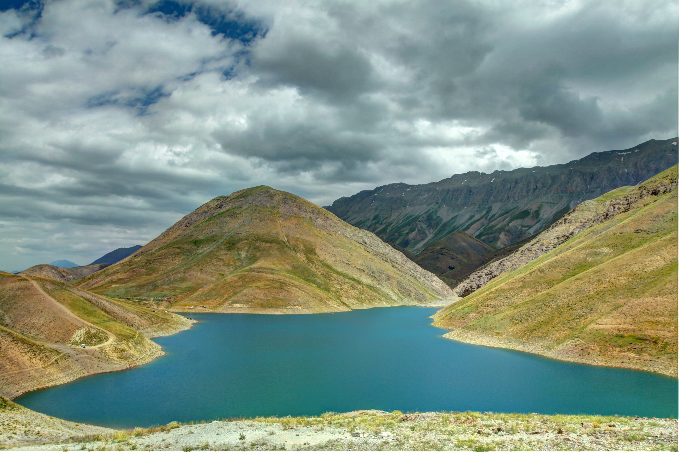 Tar lake, Damavand, Iran - July 6, 2016 Photo: Safa Daneshvar